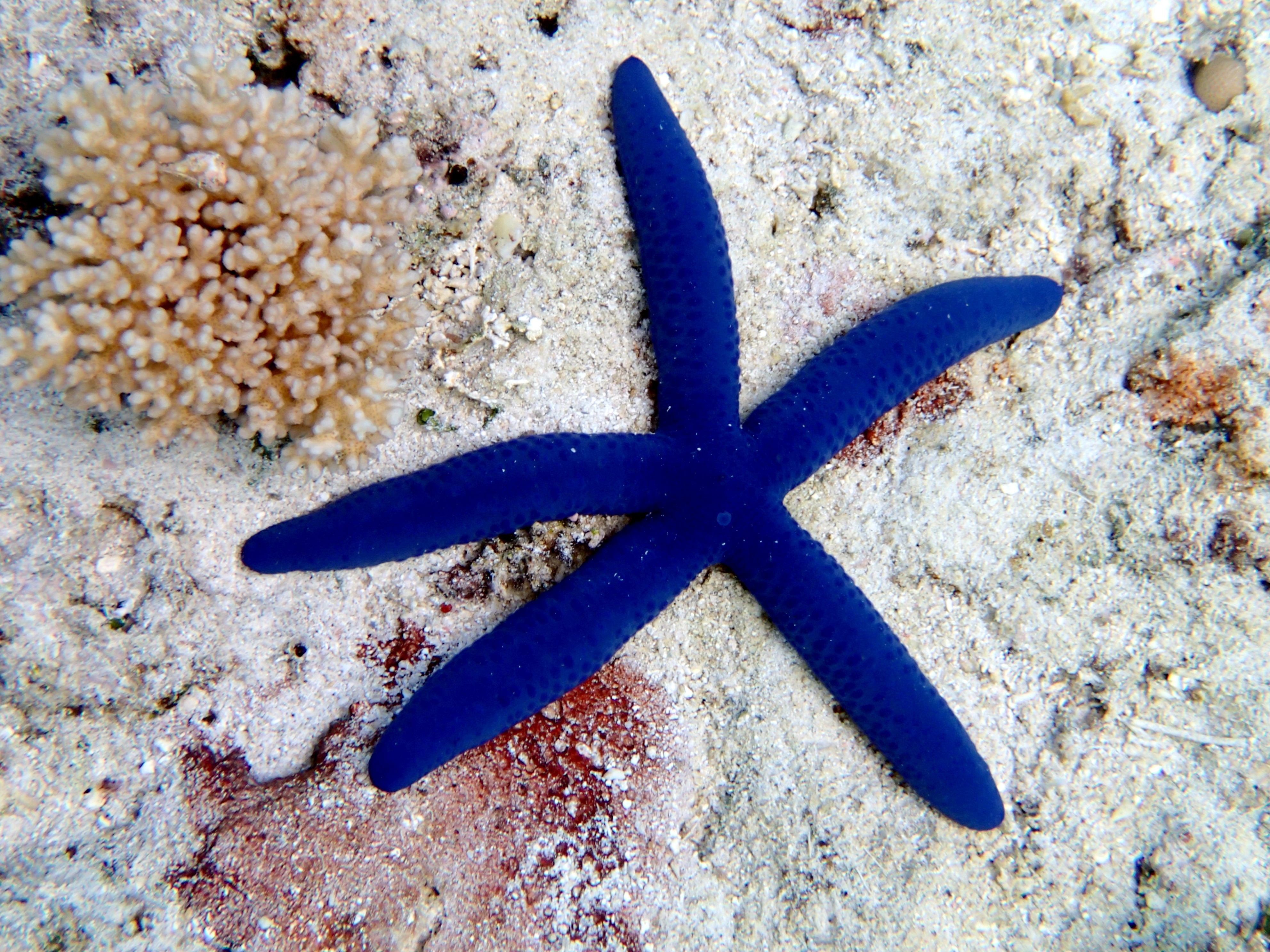 Linckia laevigata - Blue sea star, Tonga islands.